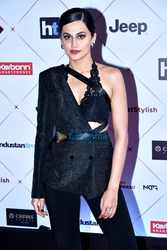 Taapsee Pannu at the 2018 HT Style Awards